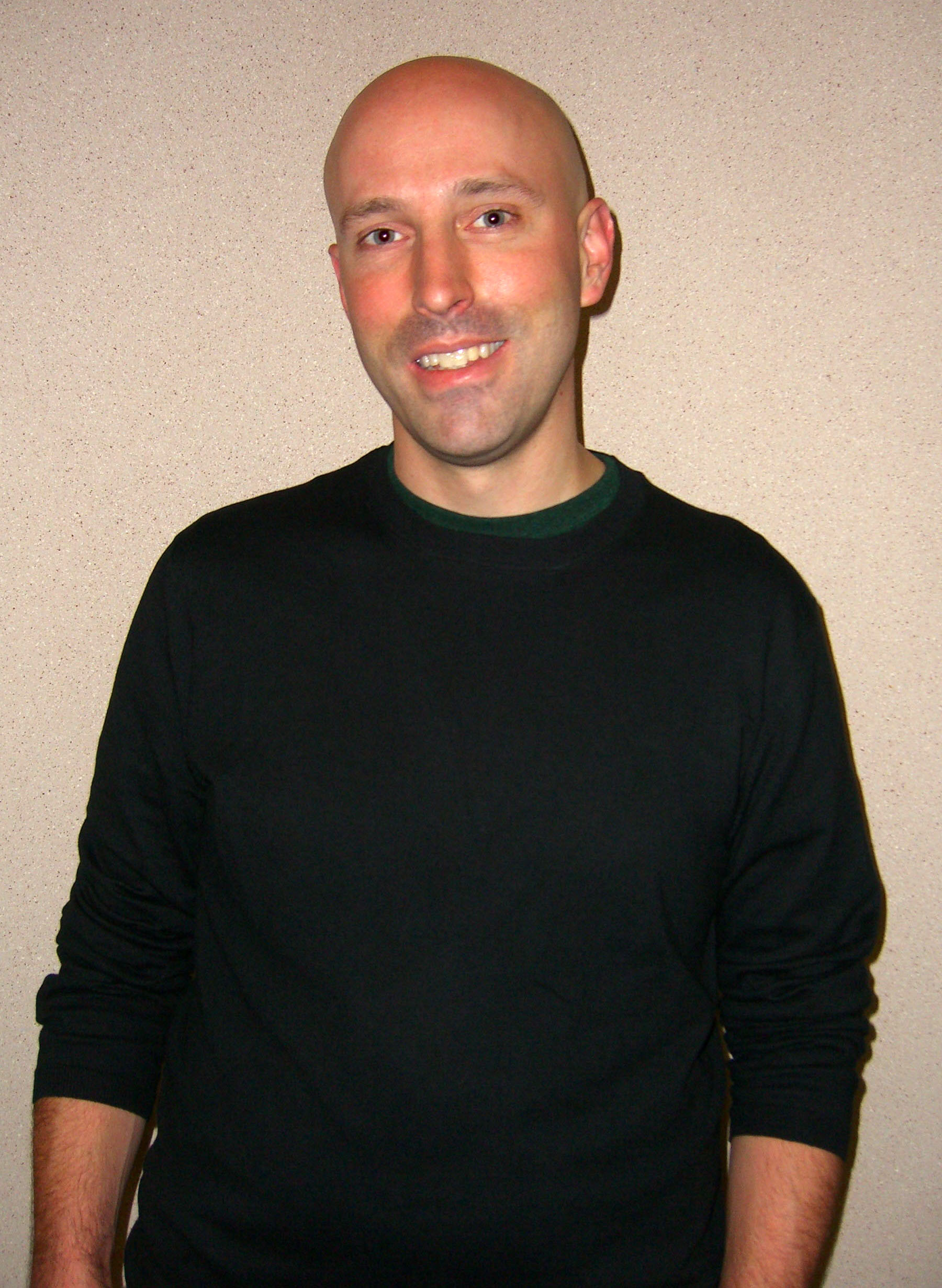 Comics creator Brian K. Vaughan on Day 2 of the 2012 New York Comic Con, Friday October 12, 2012 at the Jacob K. Javits Convention Center in Manhattan. This photo was created by Luigi Novi. It is not in the public domain, and use of this file outside of the licensing terms is a copyright violation.